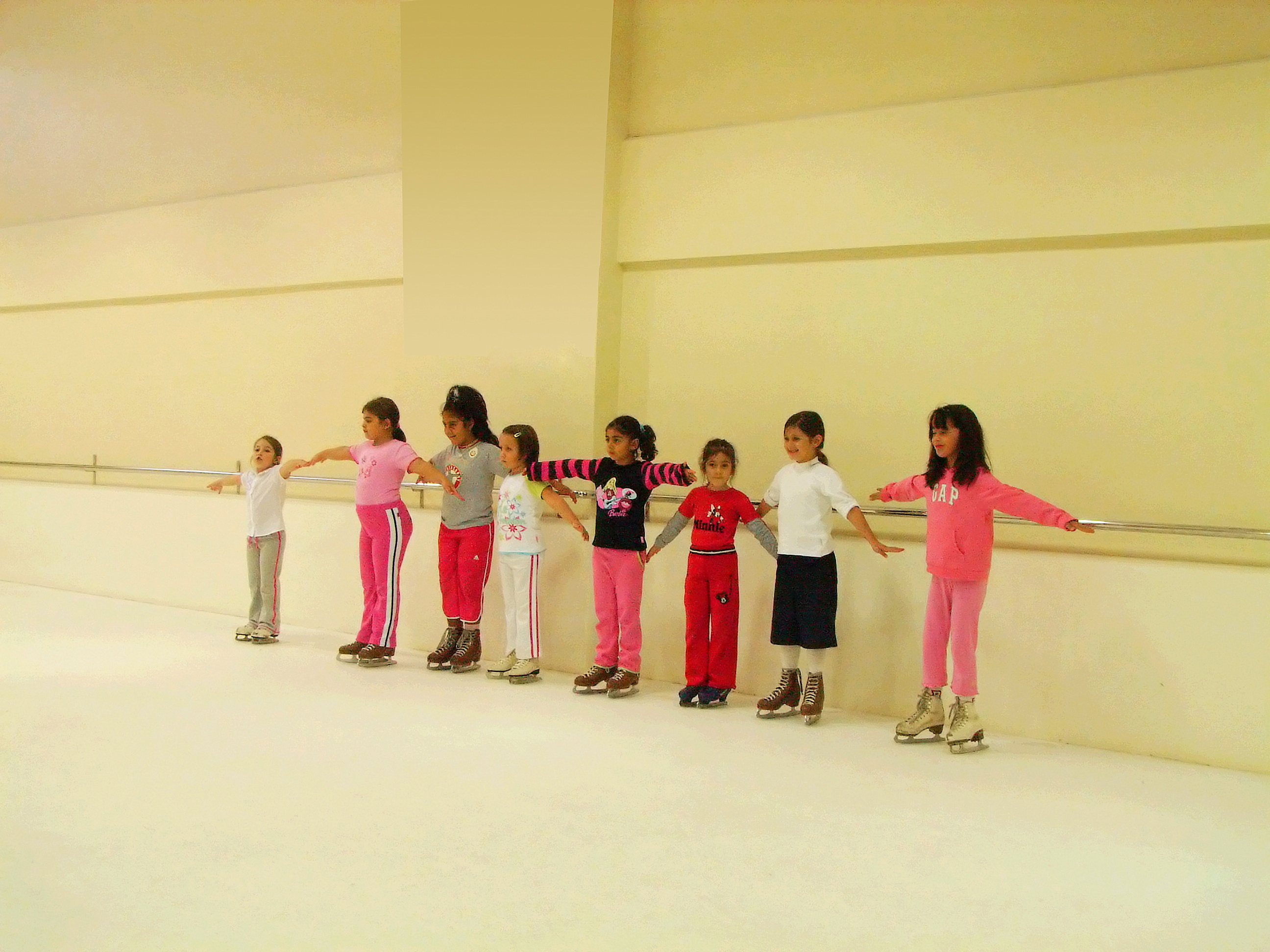 Bilfen Primary School, Çamlıca IstanbulTürkçe: Bilfen İlköğretim Okulu, Çamlıca, İstanbul